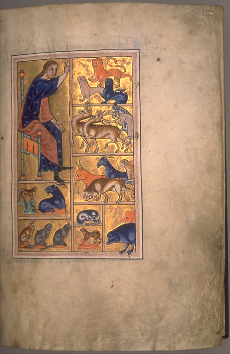 Folio 5 recto from the Aberdeen Bestiary.